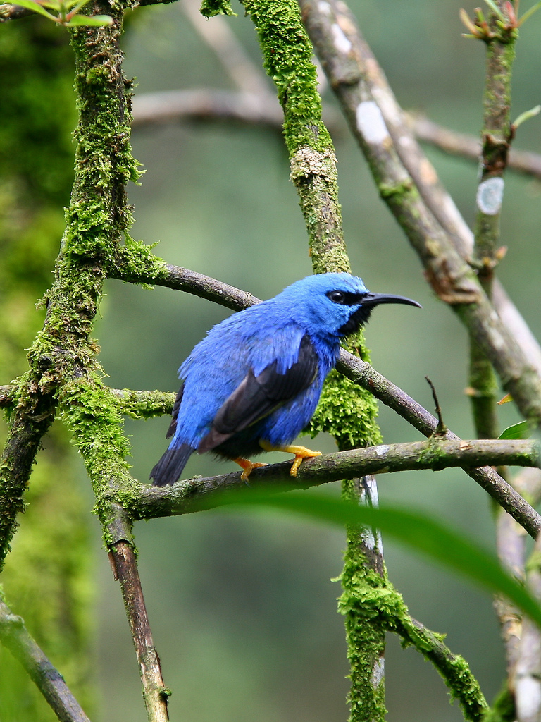 A male Shining Honeycreeper (Cyanerpes lucidus), perched on a branch in Costa Rica.